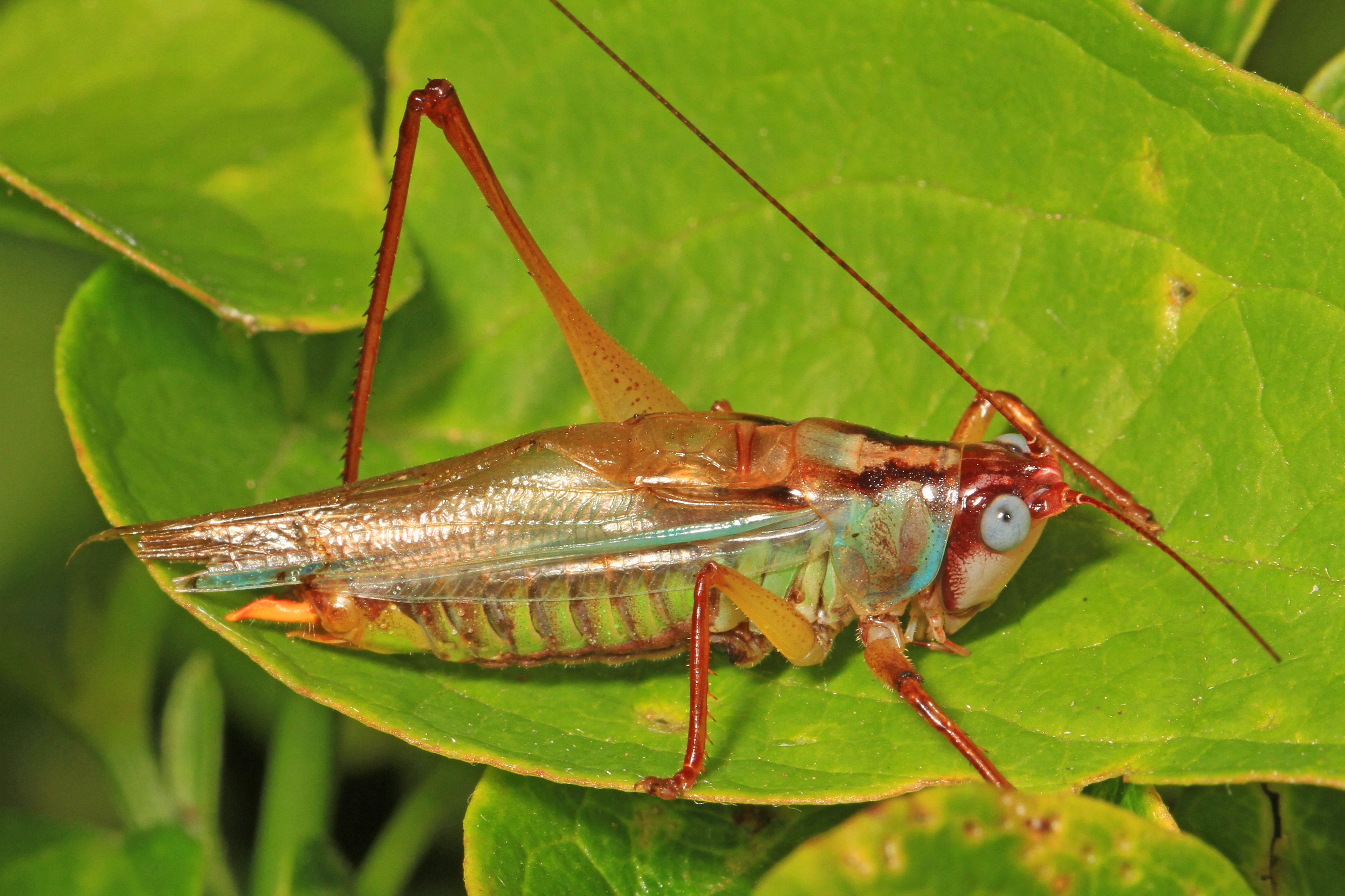 Handsome Meadow Katydid - Orchelimum pulchellum, Occoquan Bay National Wildlife Refuge, Woodbridge, Virginia